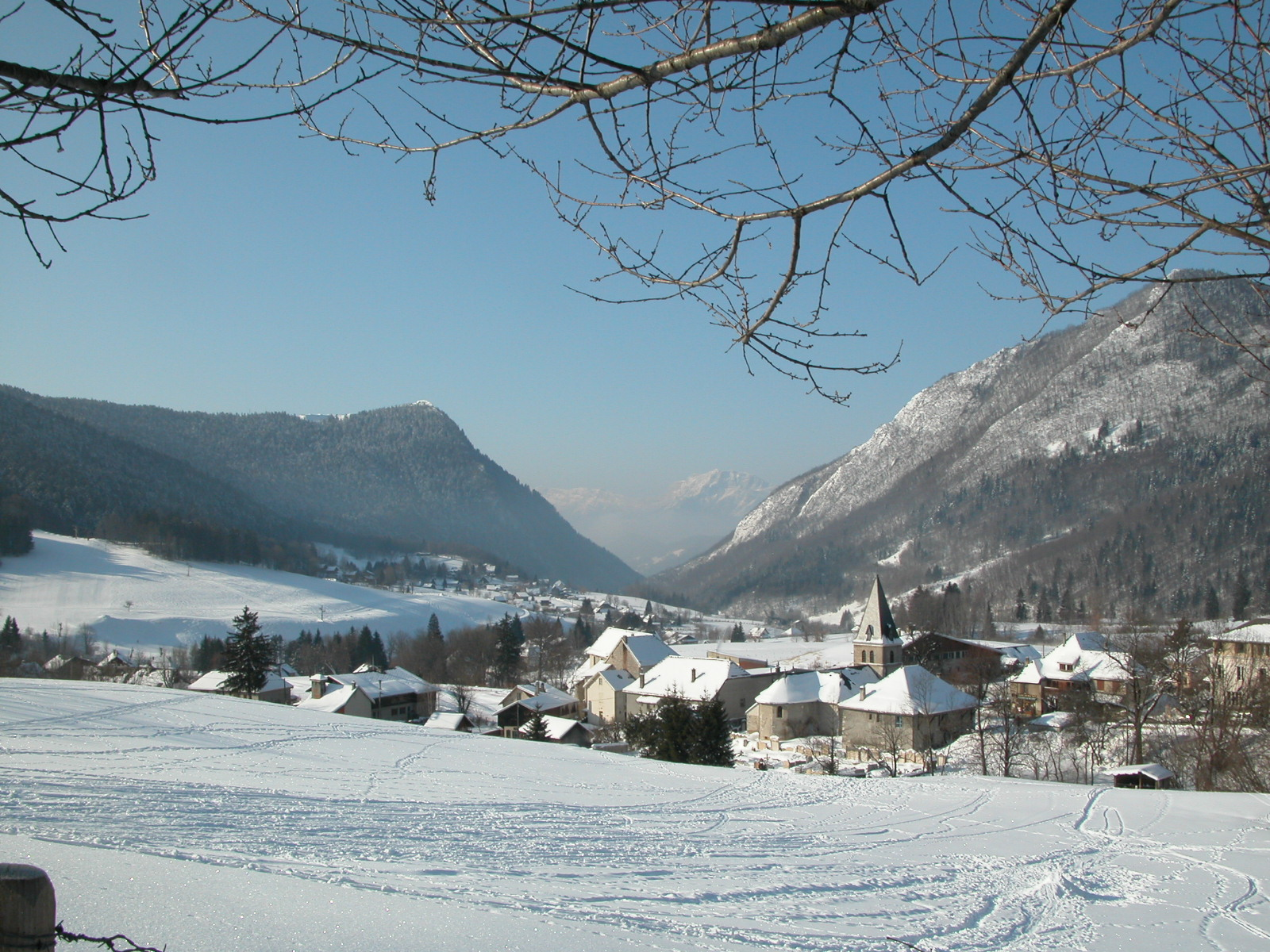 View of the village from NE in winter 2005-2006